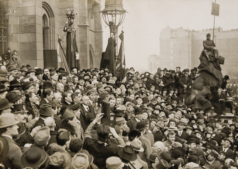 Sandor Garbai and Bela Kun, leaders of the Hungarian Soviet Republic, 1919